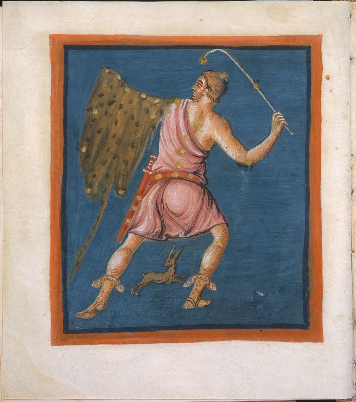 Fol. 58v Orion and Lepus